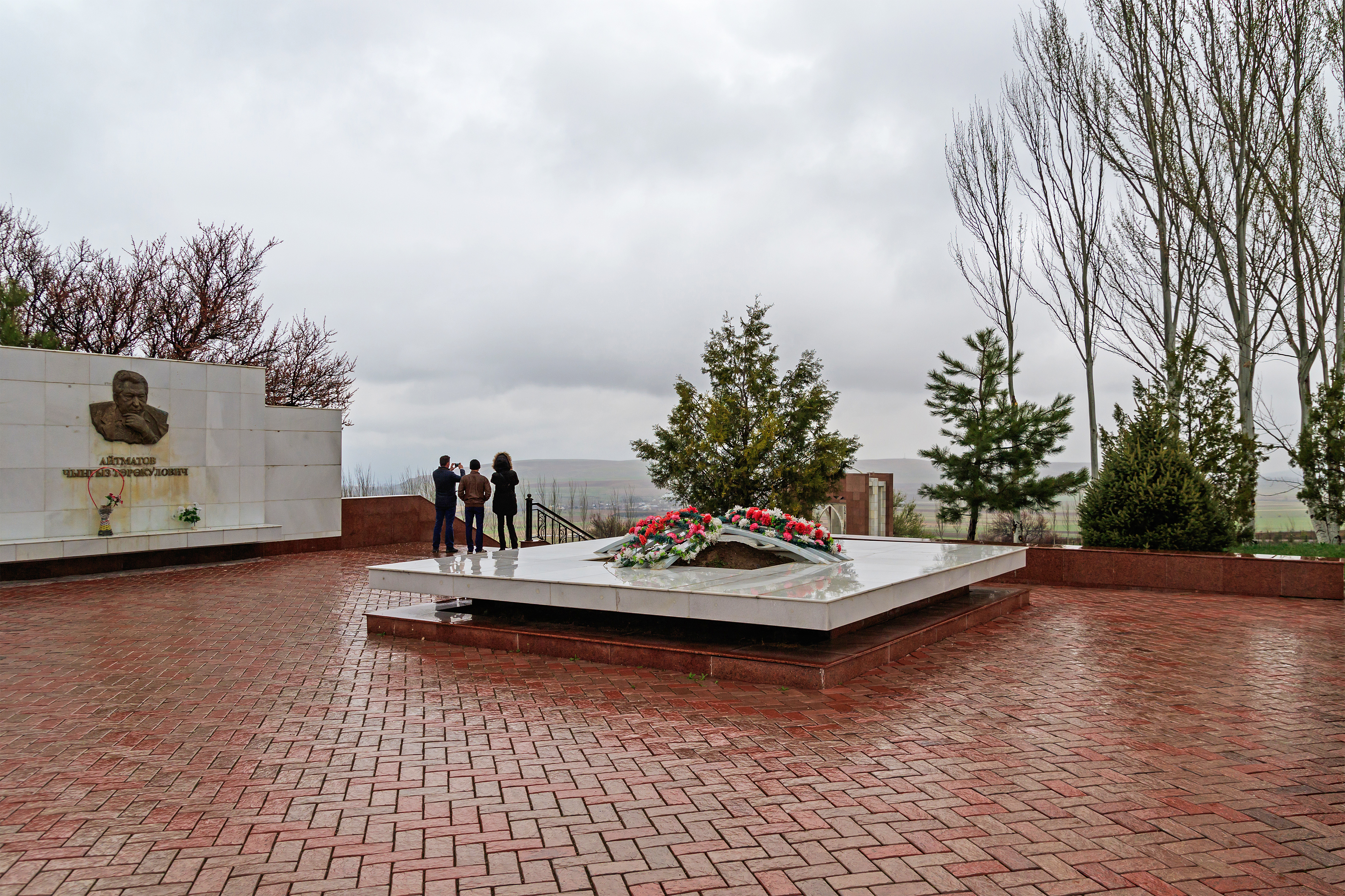 Ata-Beyit Memorial near Bishkek. Chuy Region, Kyrgyzstan